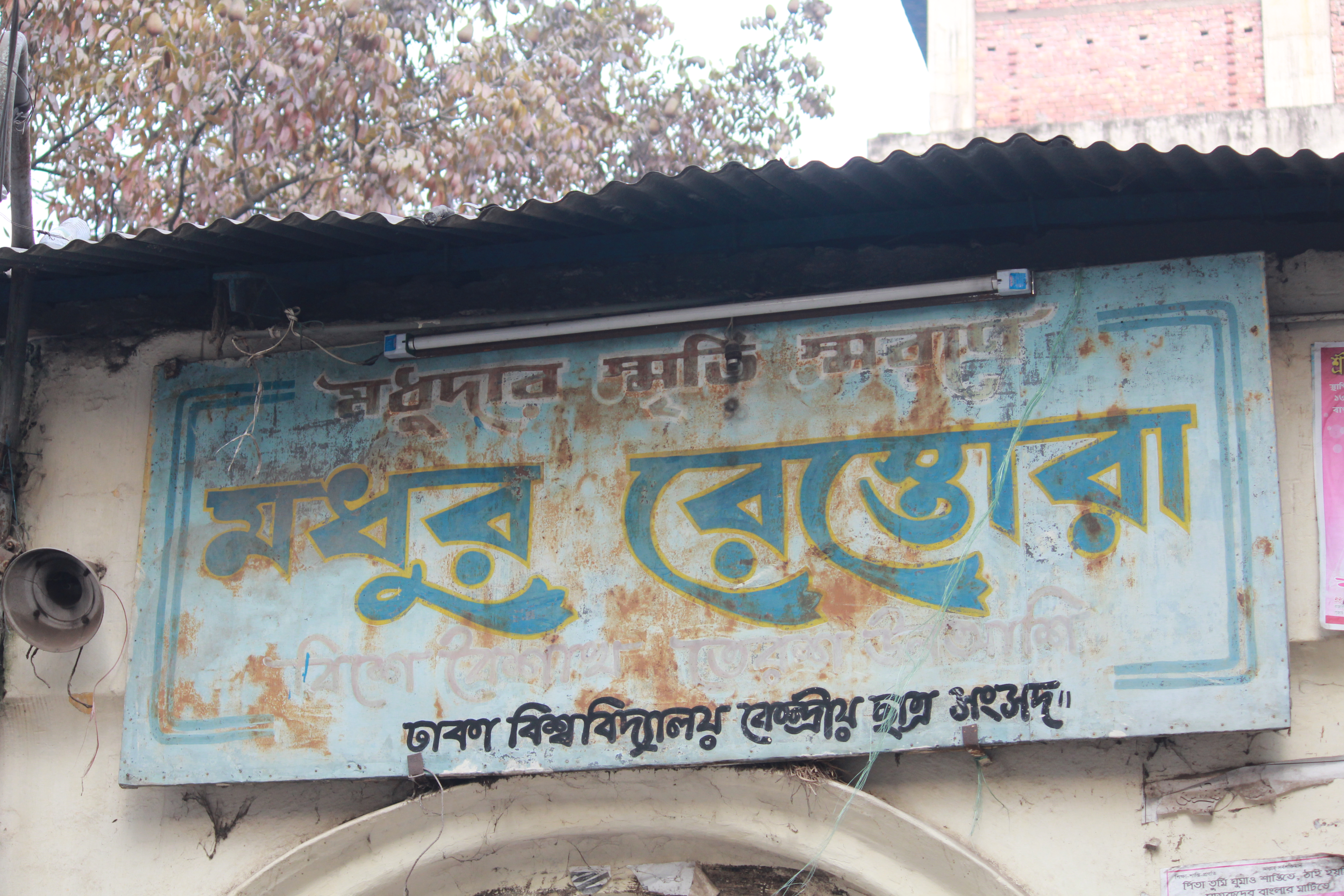 মধুর ক্যান্টিন, ঢাকা বিশ্ববিদ্যালয়